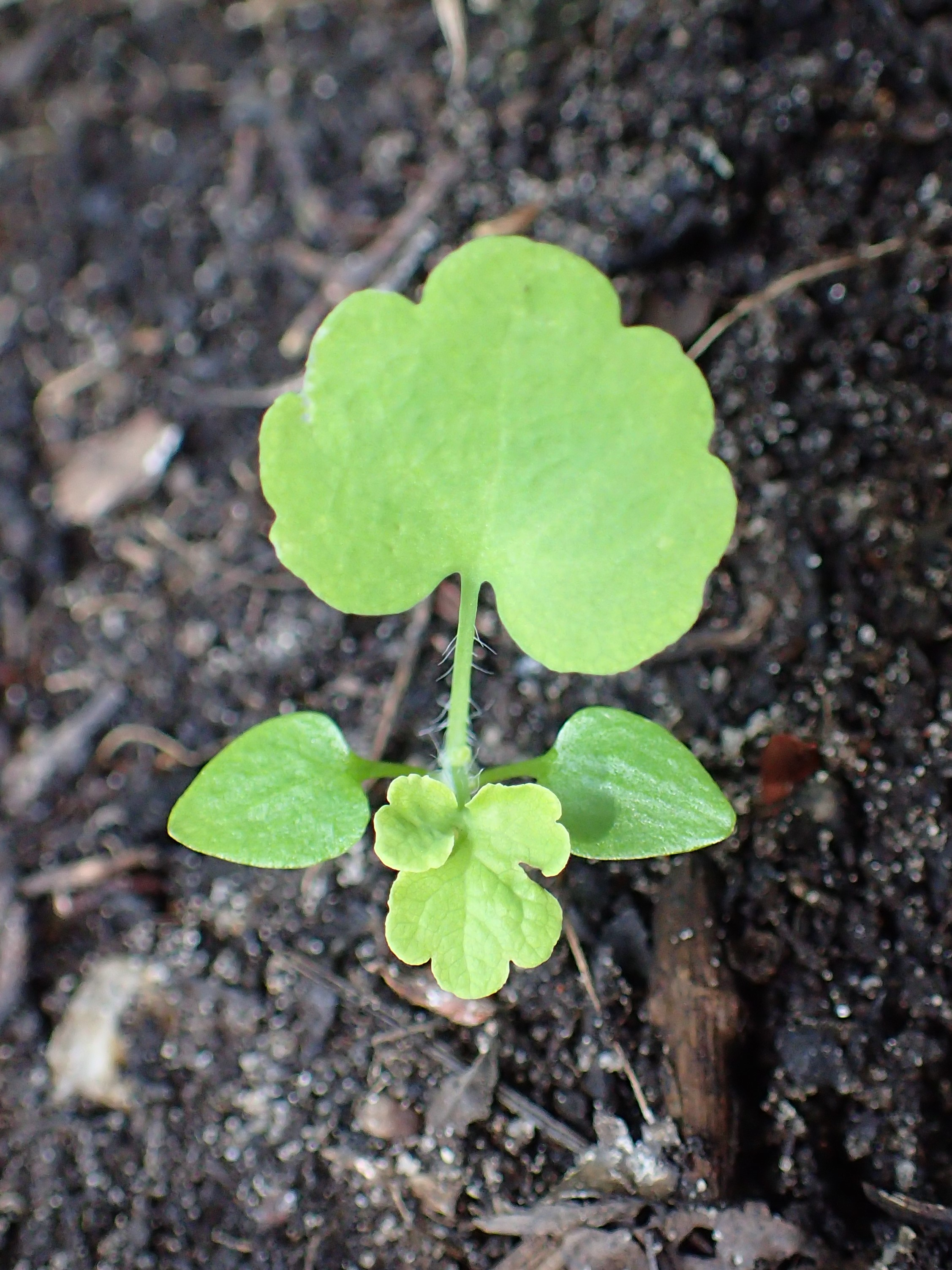 Chelidonium majus seedling. Rurzyca by Szczecin, NW Poland